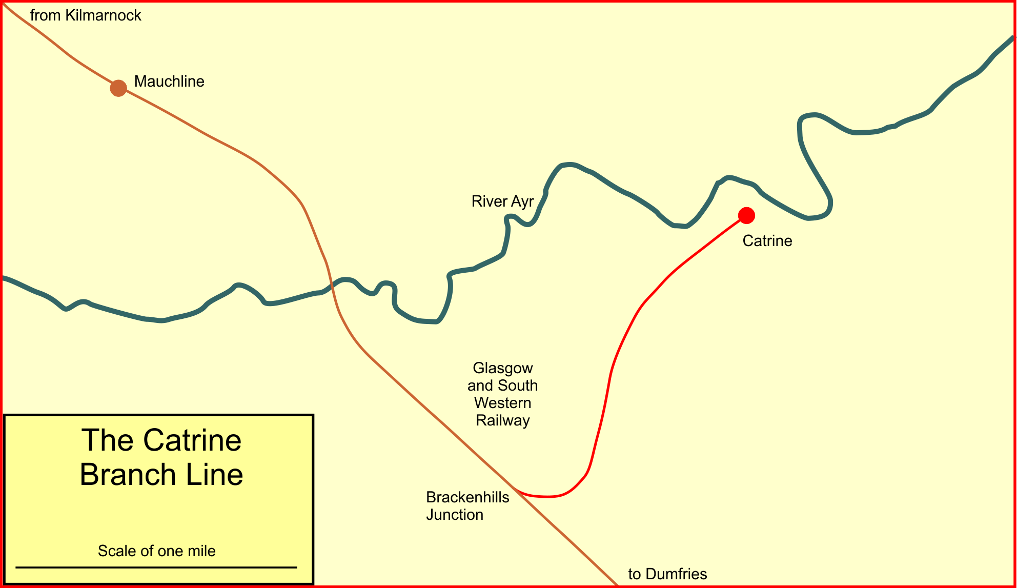 System map ofthe Catrine branch railway, Scotland